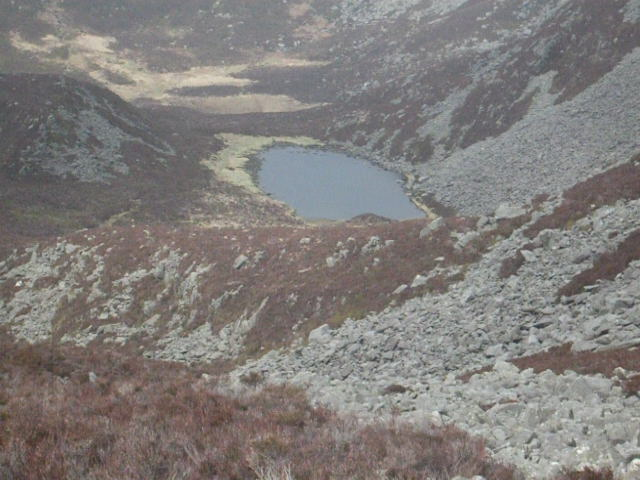 Llyn Cwmhosan View of the llyn from the descent from Llyn Hywel. Although the Rhinogs have a bit of a reputation for tracklessness, a path leads up to both Llyn Cwmhosan and Llyn Hywel from the amphitheatre below Bwlch Drws Ardudwy.